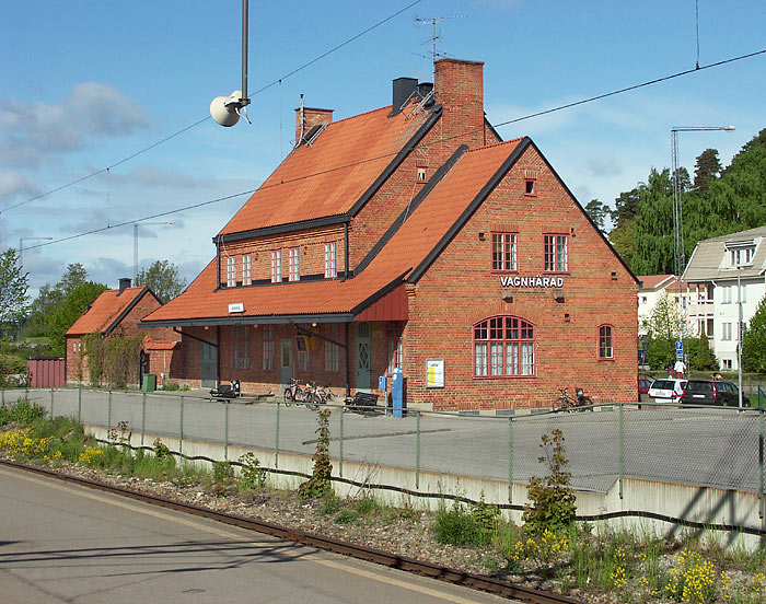 Vagnhärad railway station is the railway station in Vagnhärad in Sweden.